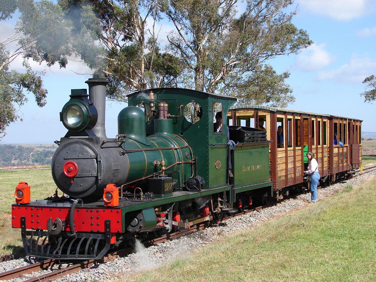 Beira Railway BR7 (4-4-0), SAR Class NG6Location: Sandstone Estates, Ficksburg, Free State